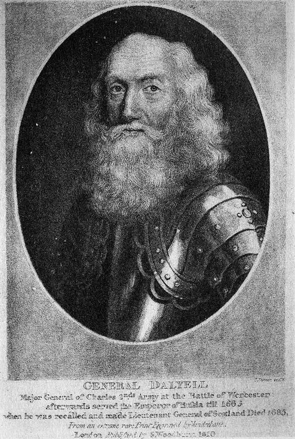 Tam Dalyell of the Binns